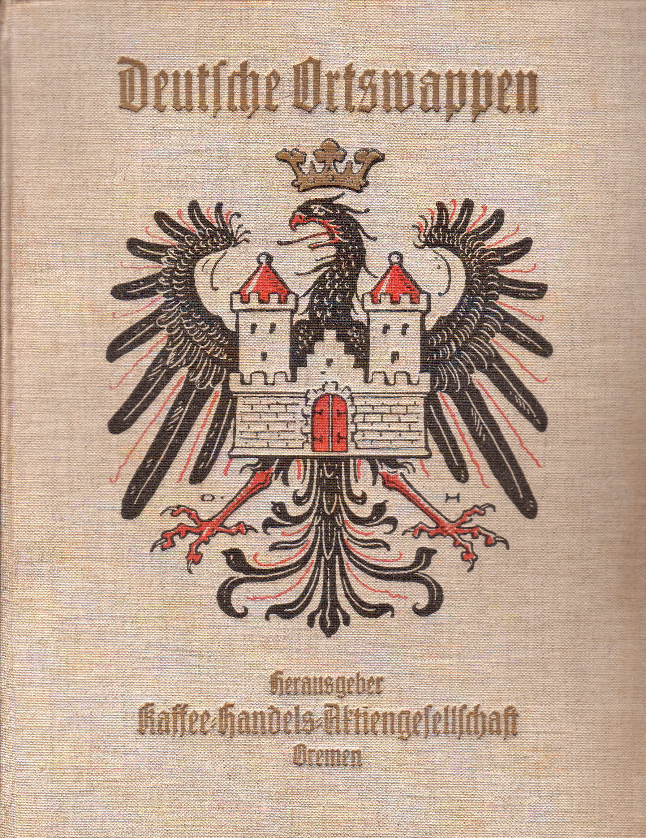 Title page of book